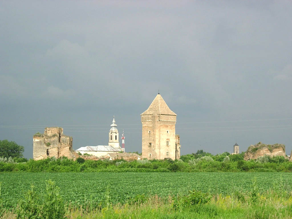 View of the fortress and the town of Bač, Serbia.